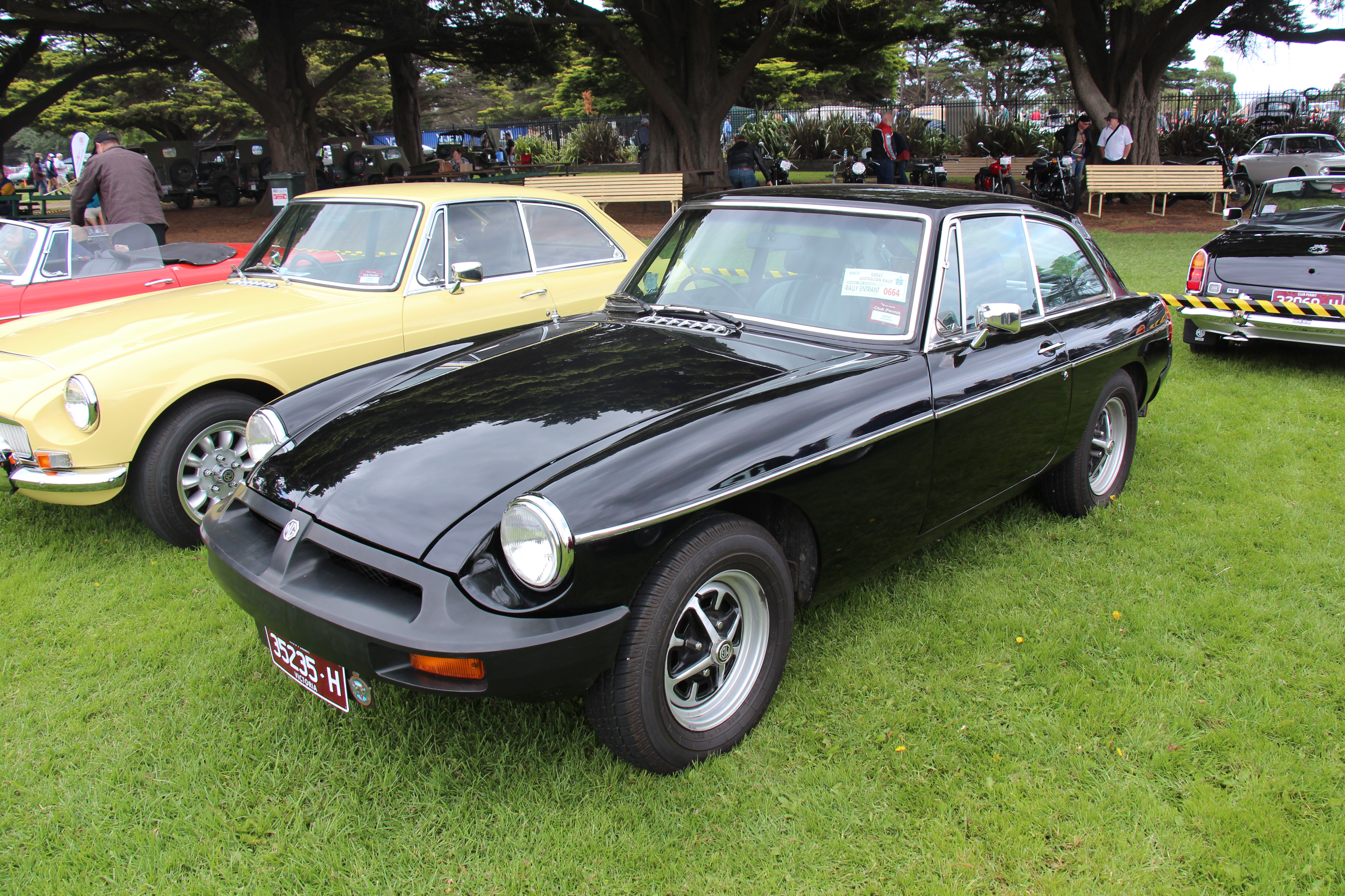 In 1962 the MGA was replaced by the MGB, getting a redesigned lighter body and chassis giving it more space. It was also a better handling car. In England the Mk I was made from 1962-67, also assembled in Australia from 1963-72. Originally only available as a Roadster and engine; 1798cc 4 cyl with twin SUs, 1965 MGB GT Hardtop 2+2 Coupe available with hatch back 1967 Mk II got a few mechanical upgrades including a new gearbox causing the floor pan to be changed. and the 6 cyl MGC available; 145hp 2912cc Austin 1970 saw split rear bumpers with the number-plate in between 1971 saw a new front grille, recessed, in black aluminium. 1972 Mk III and the more traditional-looking polished grille returned now with central divider and a black honeycomb insert. 1973 MGB GT V8 available 137hp 3528cc aluminium Rover V8 1974 A new, steel-reinforced black rubber bumper at the front incorporated the grille area and a matching rear bumper